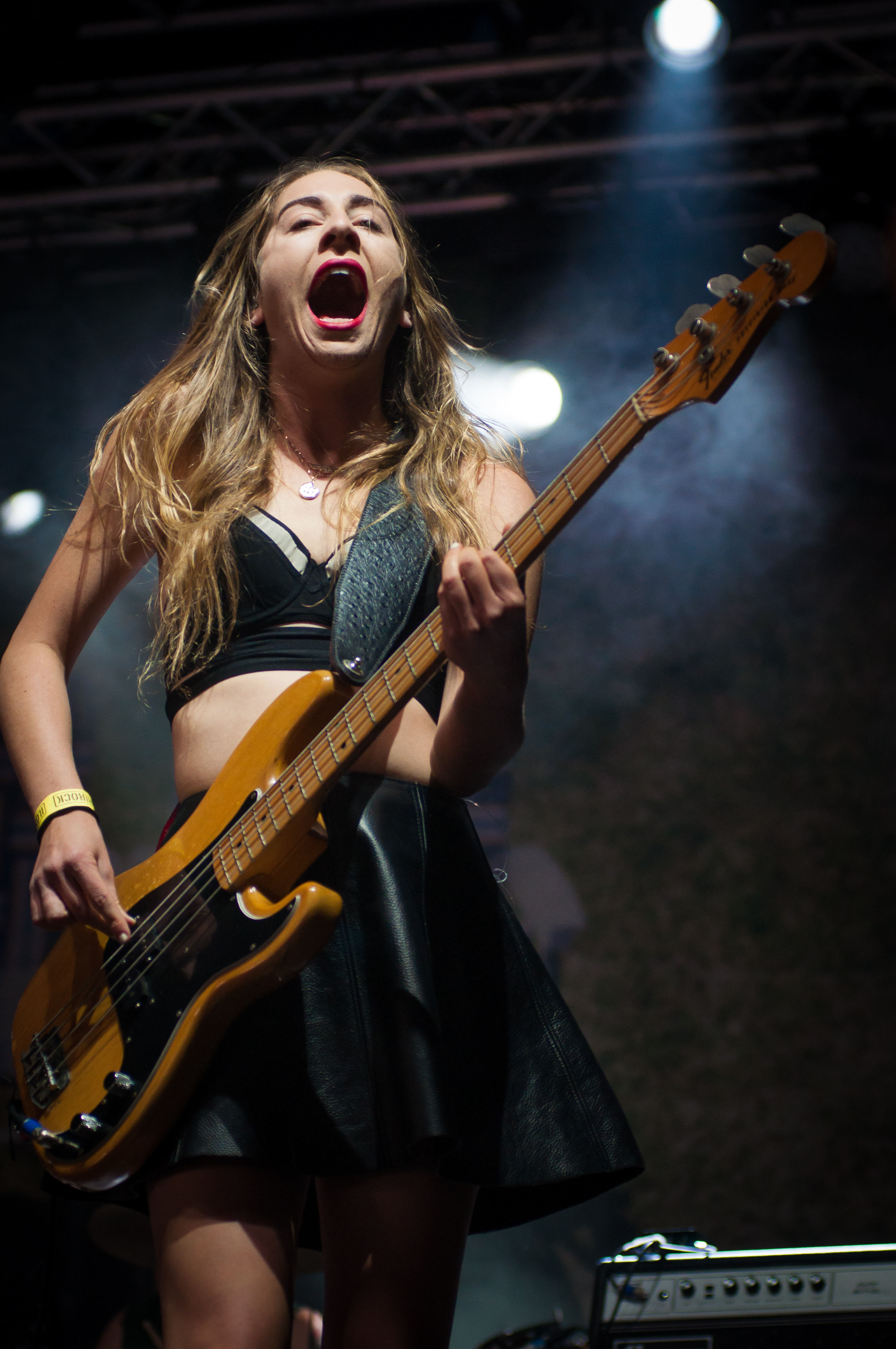 Este Haim of American rock band Haim performing at the 2014 Ilosaarirock festival in Joensuu, Finland.